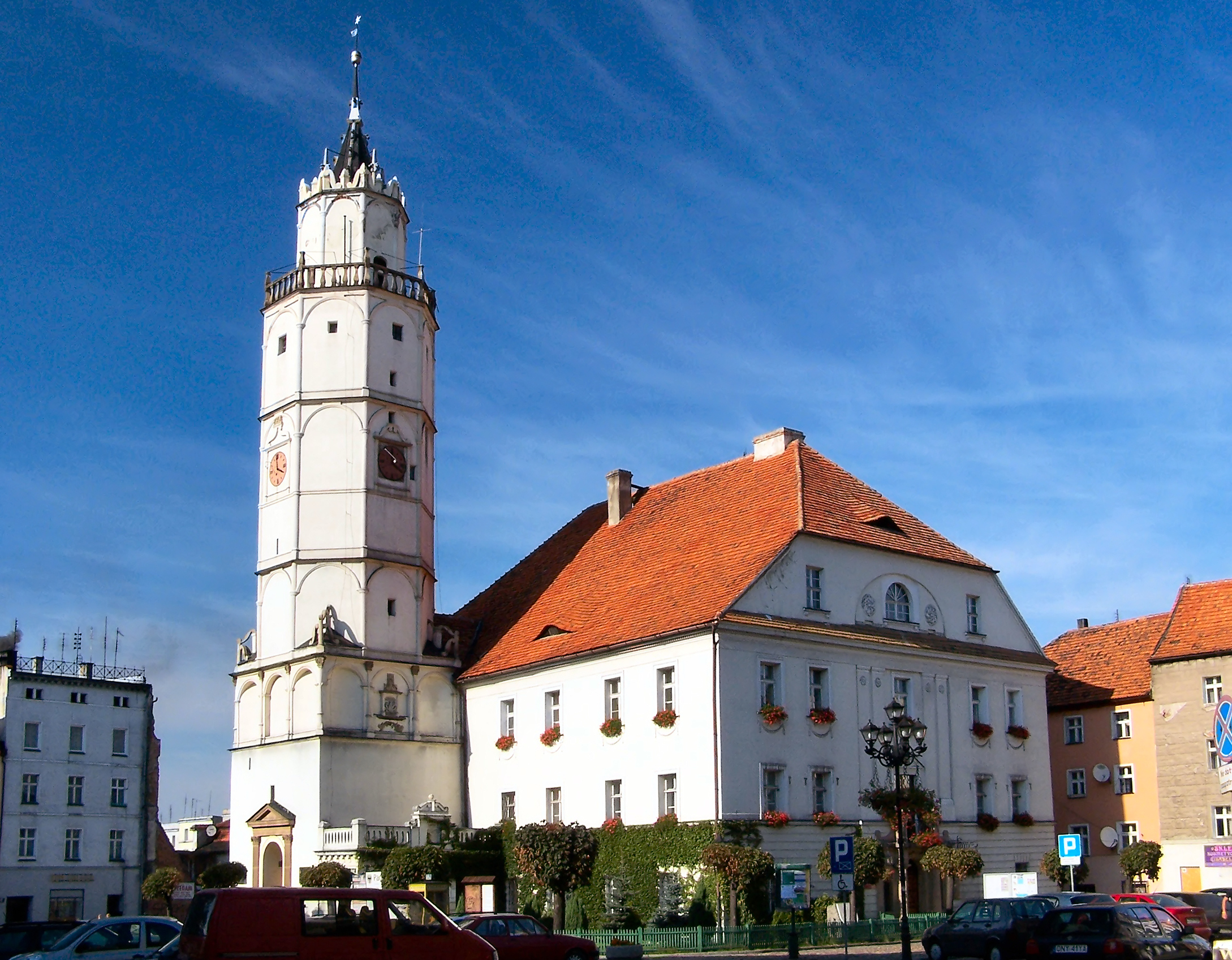 Town hall in Paczków (Lower Silesia, Poland).